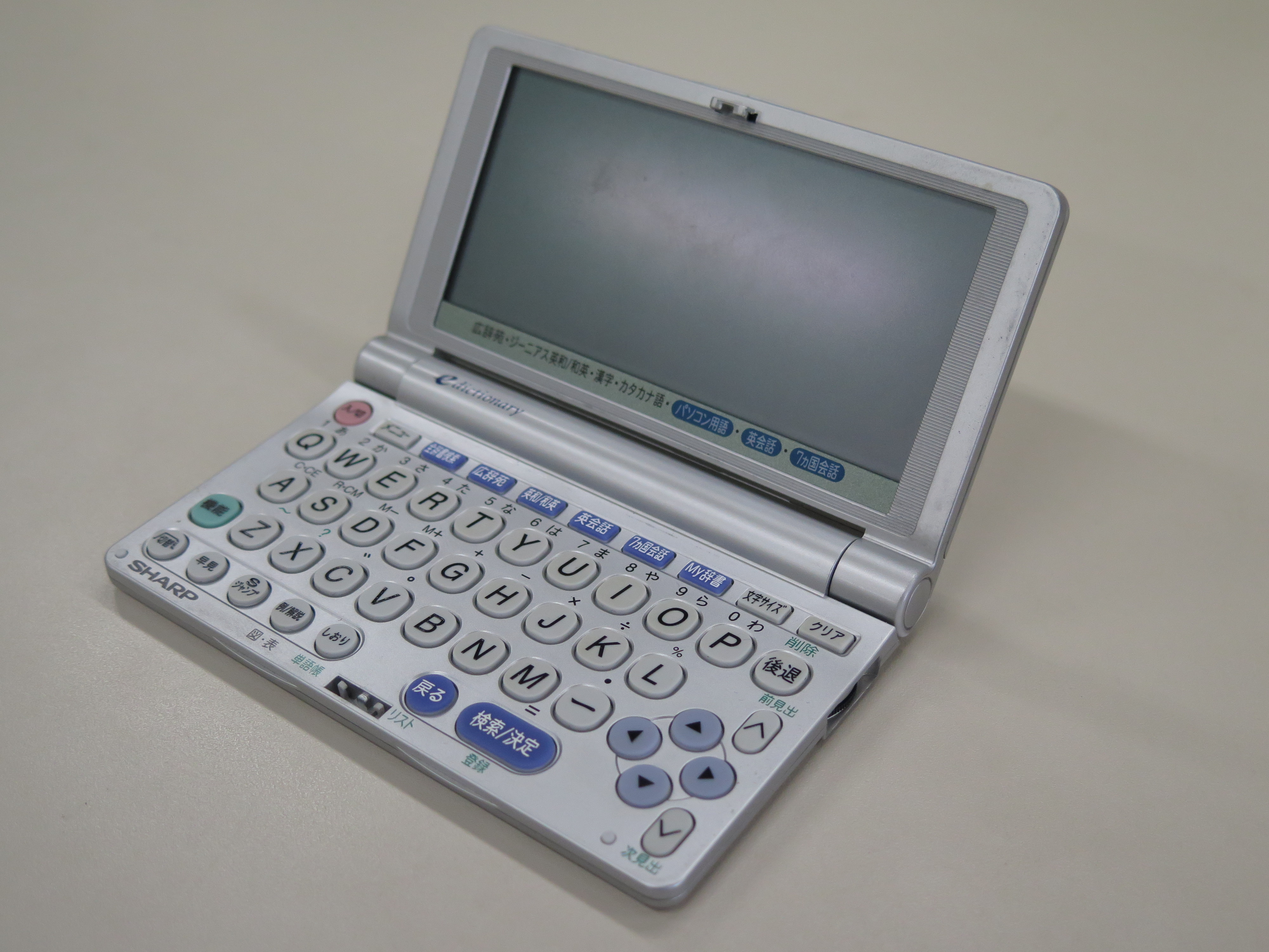 An electronic Japanese/English dictionary. The Sharp edictionary.